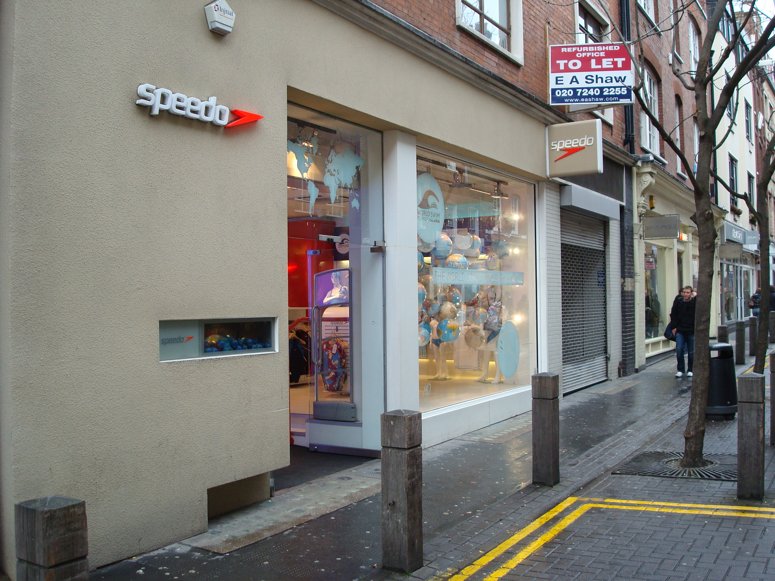 Back when Covent Garden was a dodgy place full of warehouses this used to be the site of the punk club 'The Roxy'. Today it is the site of Speedo swimwear. For an in-depth article with a map